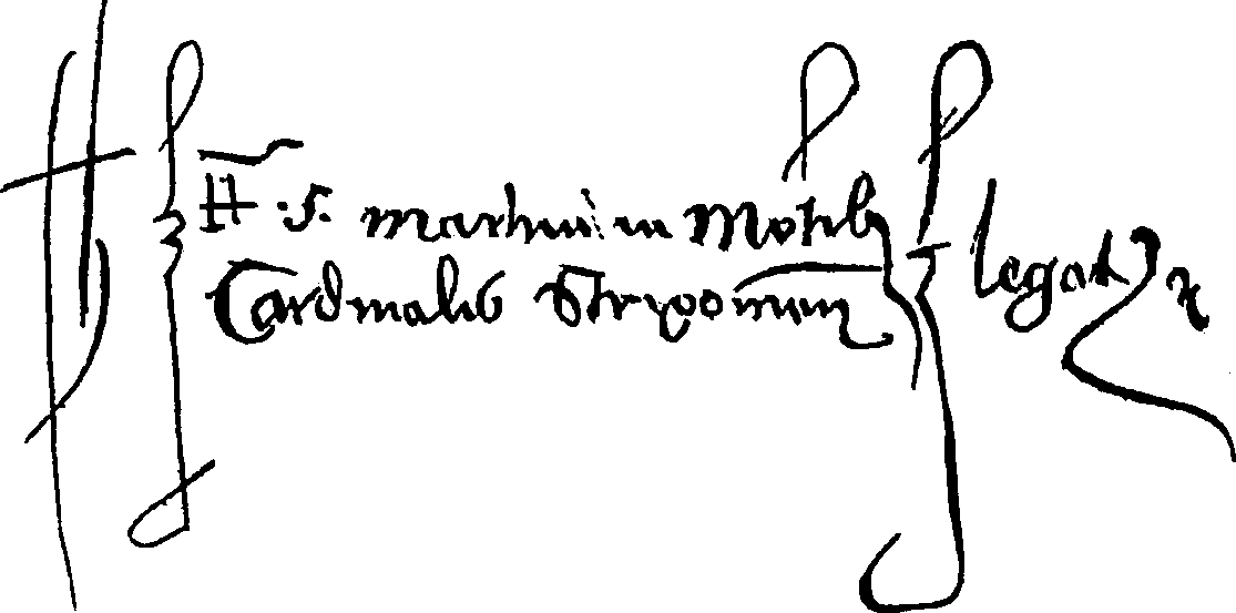 Signature of Támas Bakócz, archbishop of Esztergom.